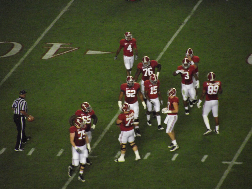 Alabama's defense vs.